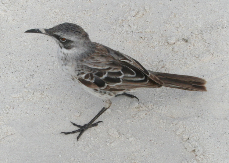 A Hood Mockingbird from Española Island in the Galápagos Islands of Ecuador